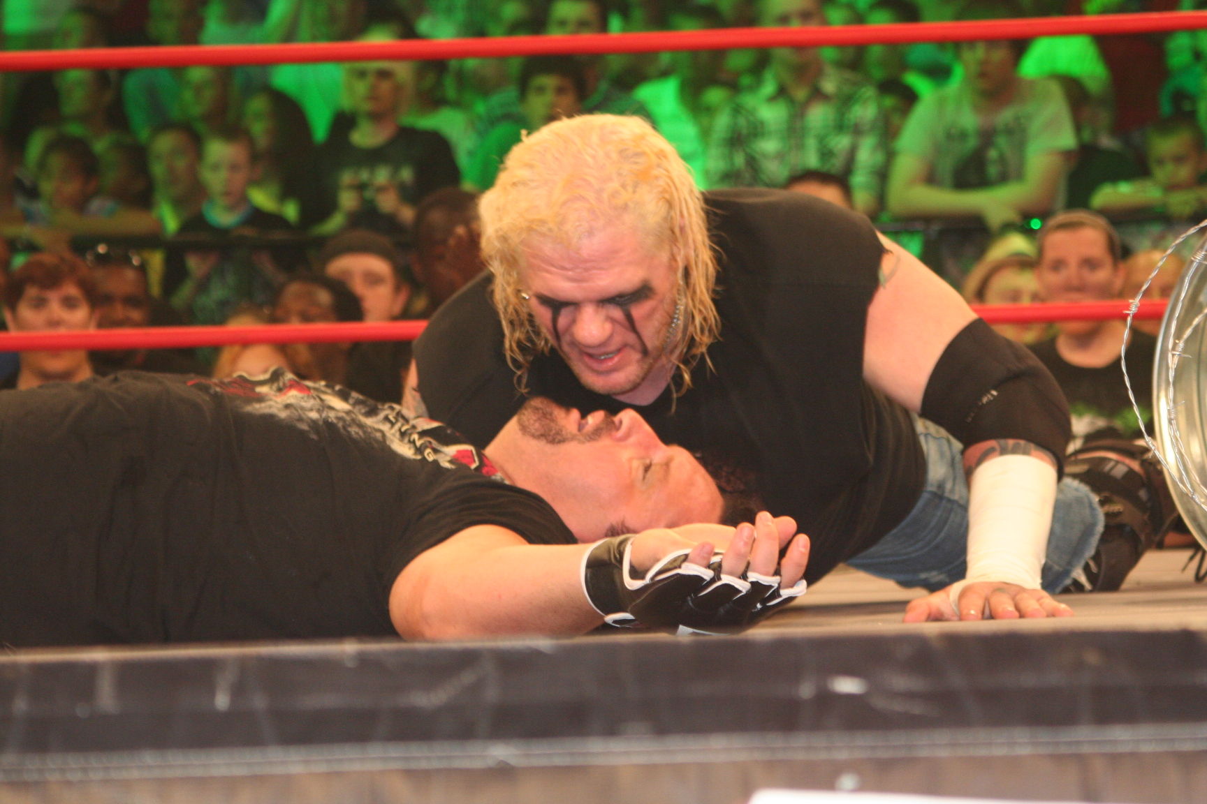 Professional wrestlers Raven and Tommy Dreamer at a TNA Impact! taping.